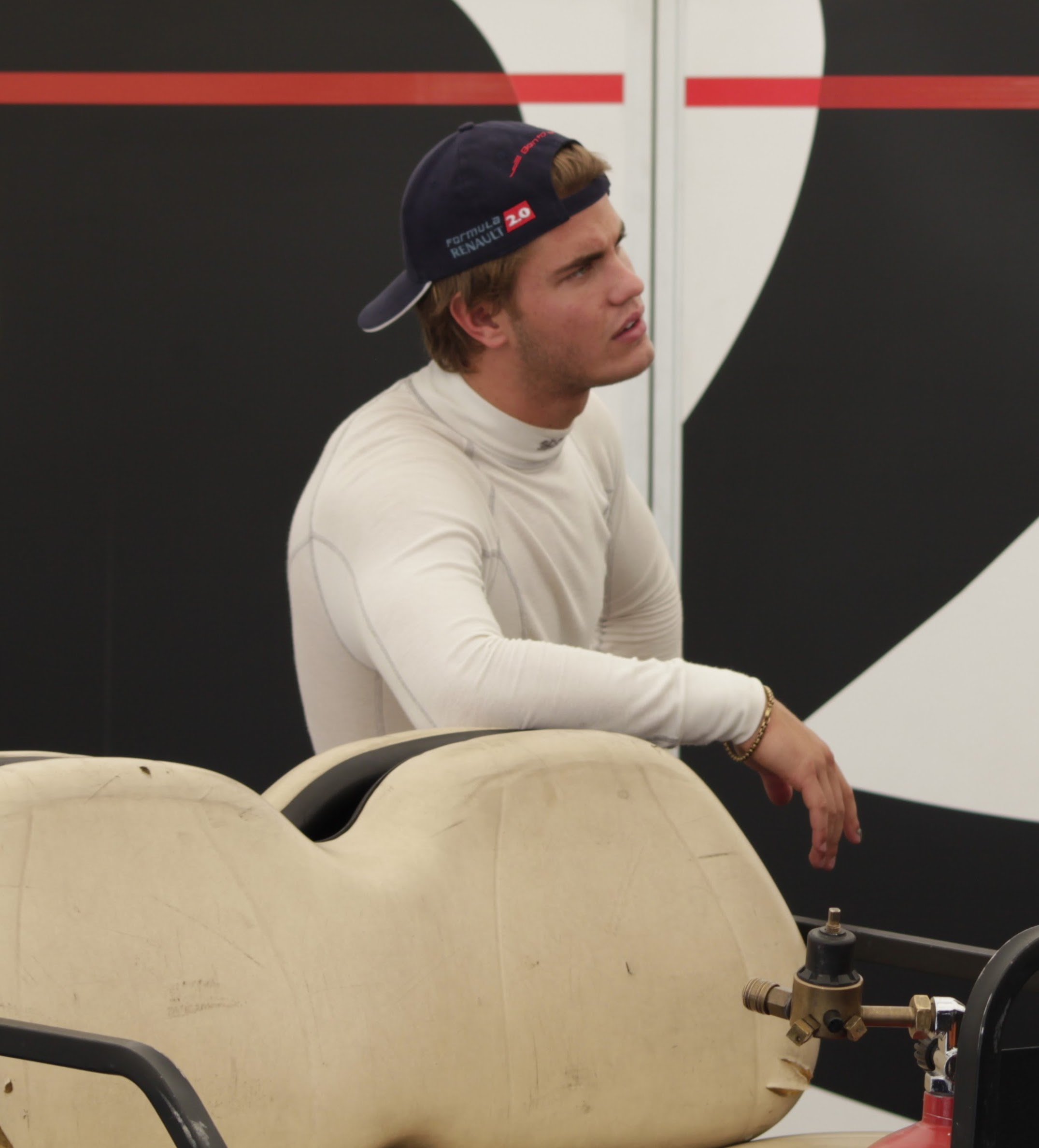 Photo of Patrick Kujala at Moscow Raceway during the 2012 Eurocup Formula Renault 2.0 race day.